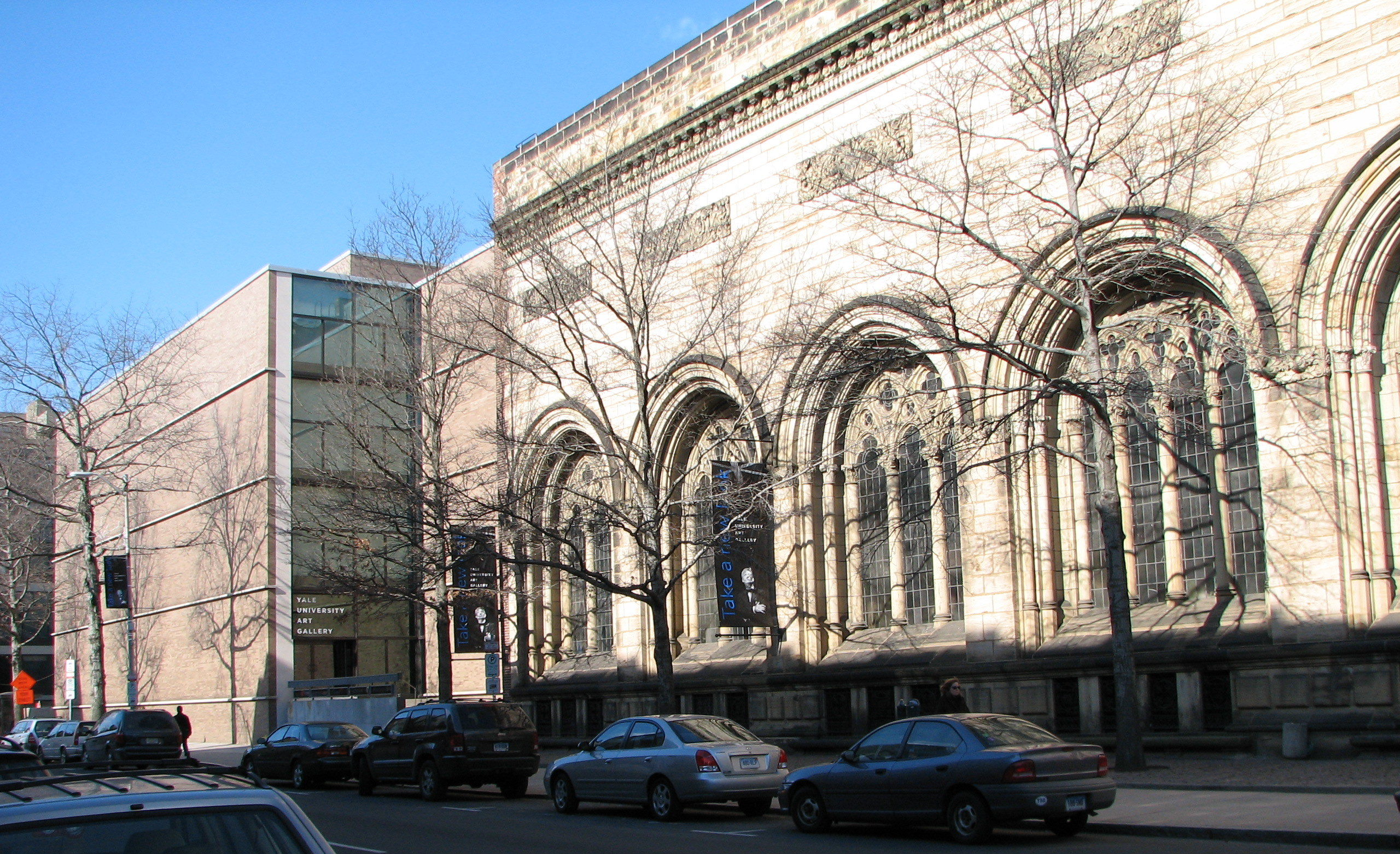 The Yale University Art Gallery. The main building, designed by Louis Kahn, is on the left.